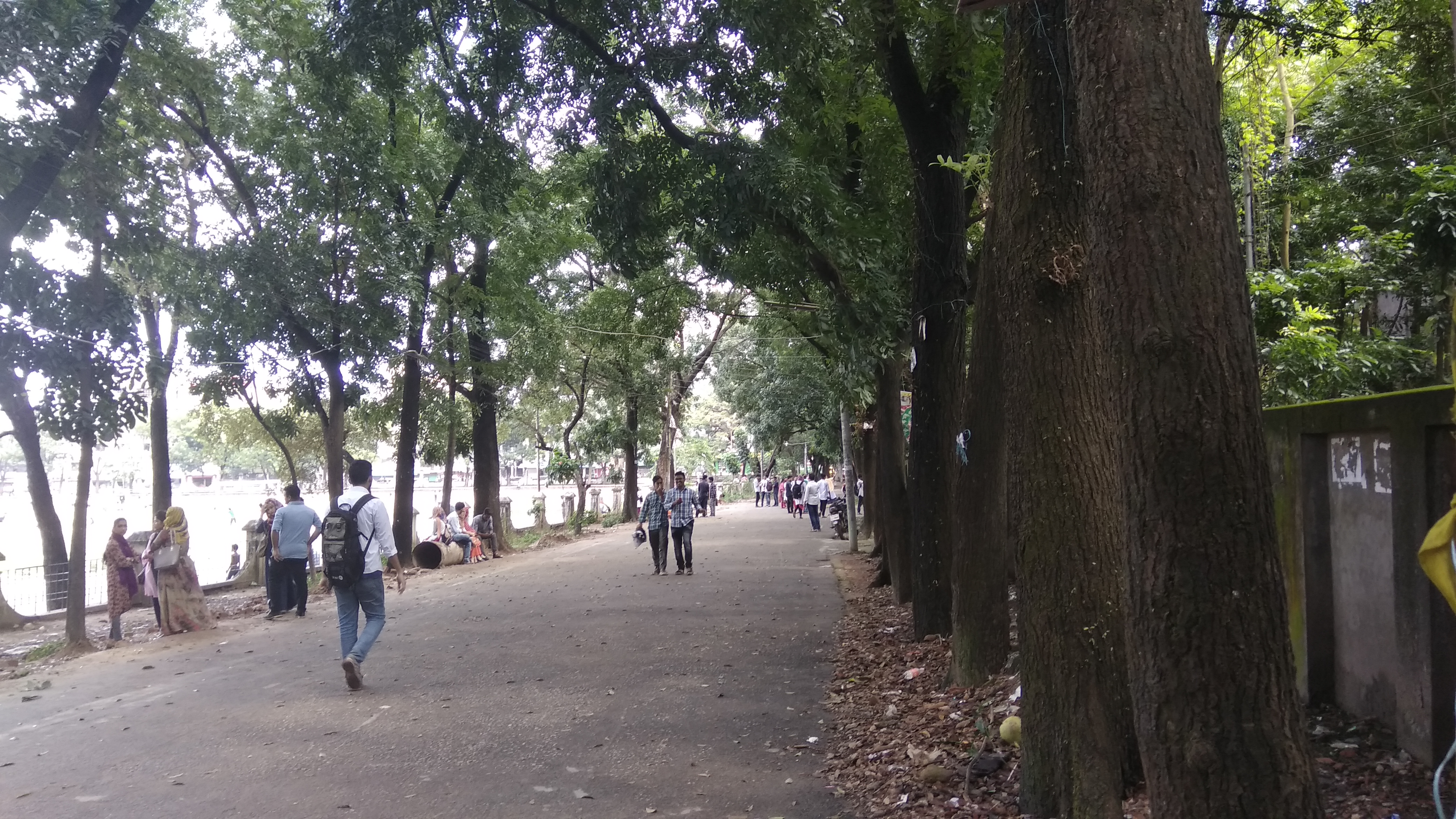 This is an image of Chittagong college hostel gate (west) road.